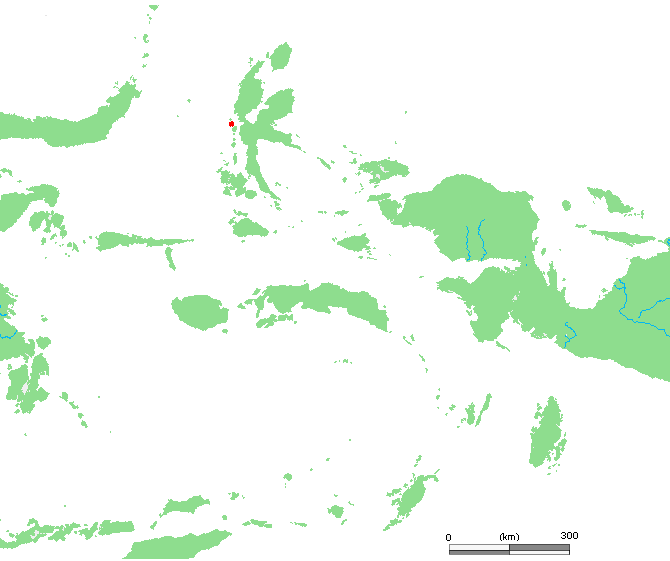 ID Ternate.PNG